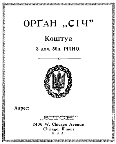 Advertisement for newspaper "Sitch". Trident logo is official Coat of Arms of the Ukrainian People's Republic (PD-UAGovDoc).